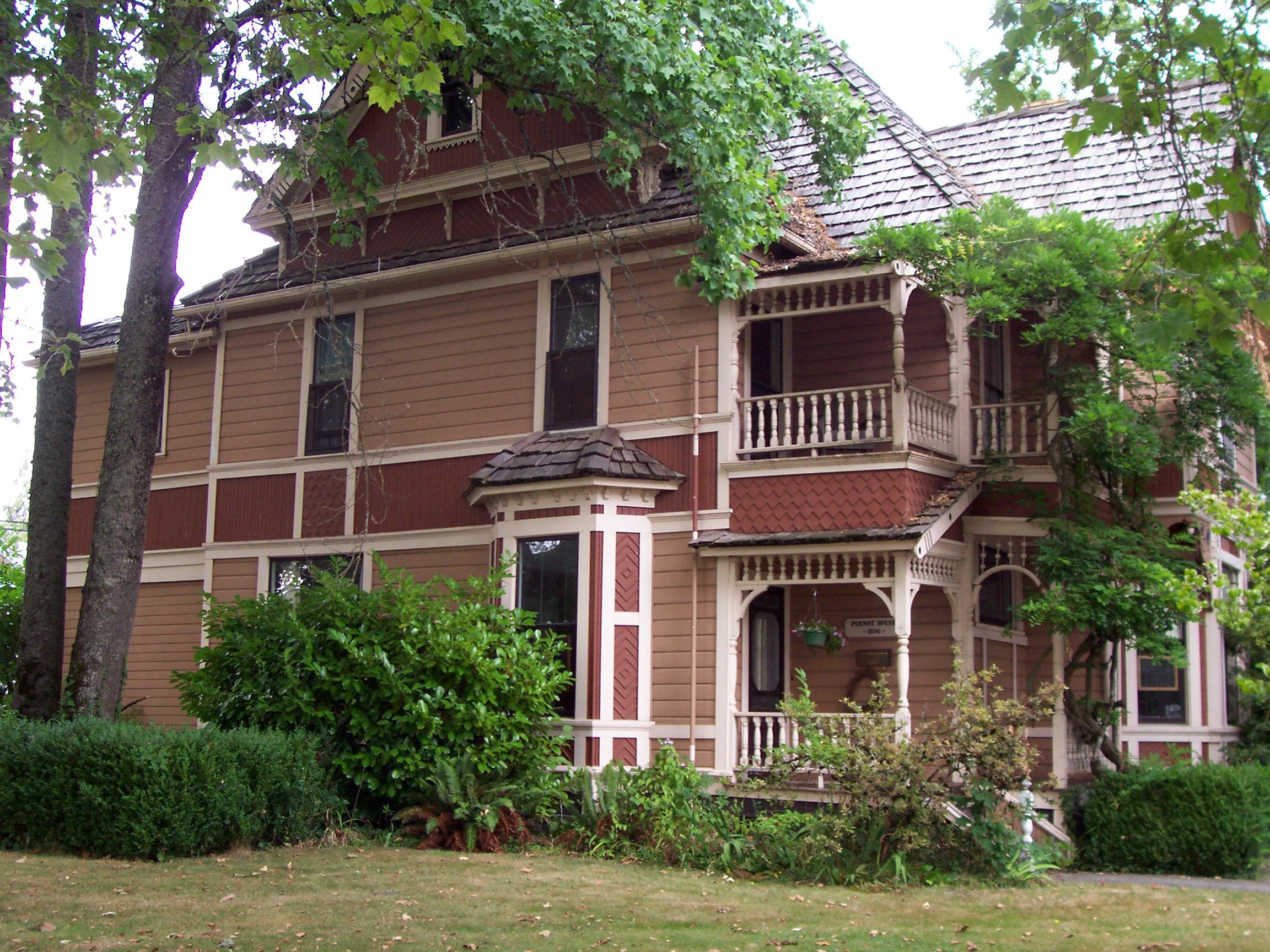 Dr. Hennry S. Pernot House in Corvallis Oregon.